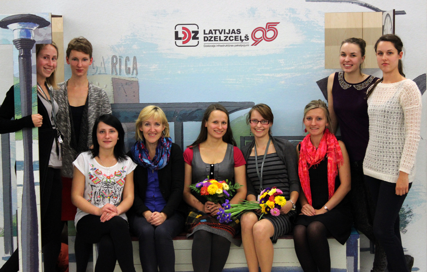 LBB JSS 18. sapulces dalībnieki: sekcijas biedri Viktorija Moskina, Klinta Kalnēja, Ināra Kindzule, Dace Ūdre, Elīna Sniedze, Santa Rukmane, Lelde Petrovska un sapulces viesis Evija Mūrniece.